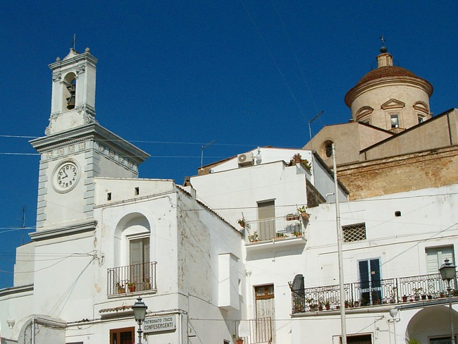 Pisticci Picture taken by user:Idéfix july 2003